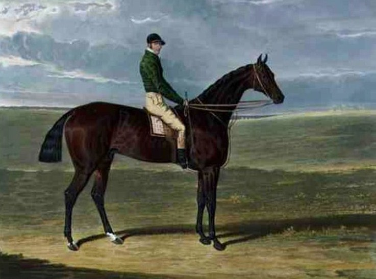 Priam, winner of 1830 Epsom Derby. Painting by John Frederick Herring Sr (1795-1865). Artist dead for 147 years.